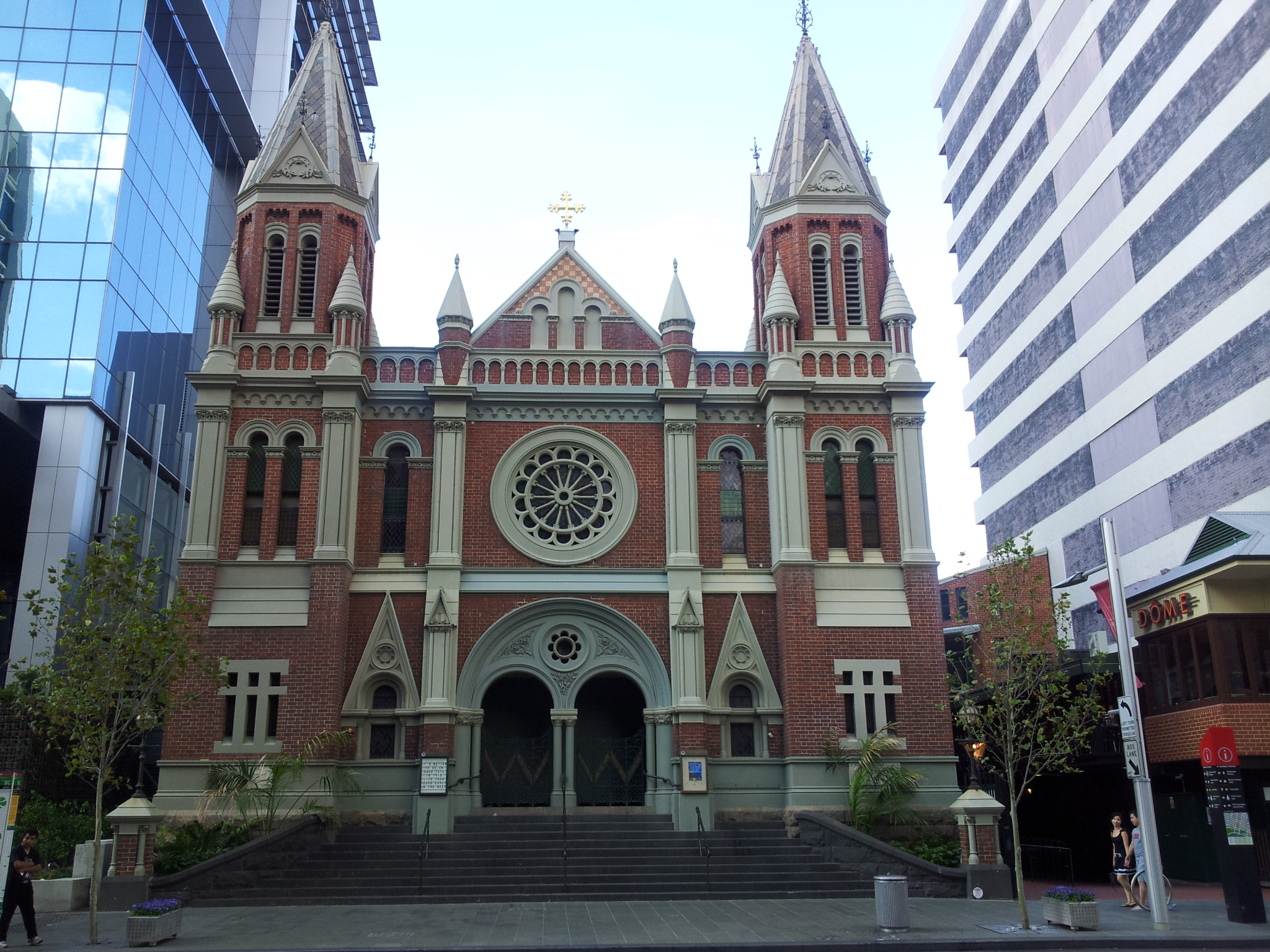 Trinity Church, Perth, Western Australia, from the front.